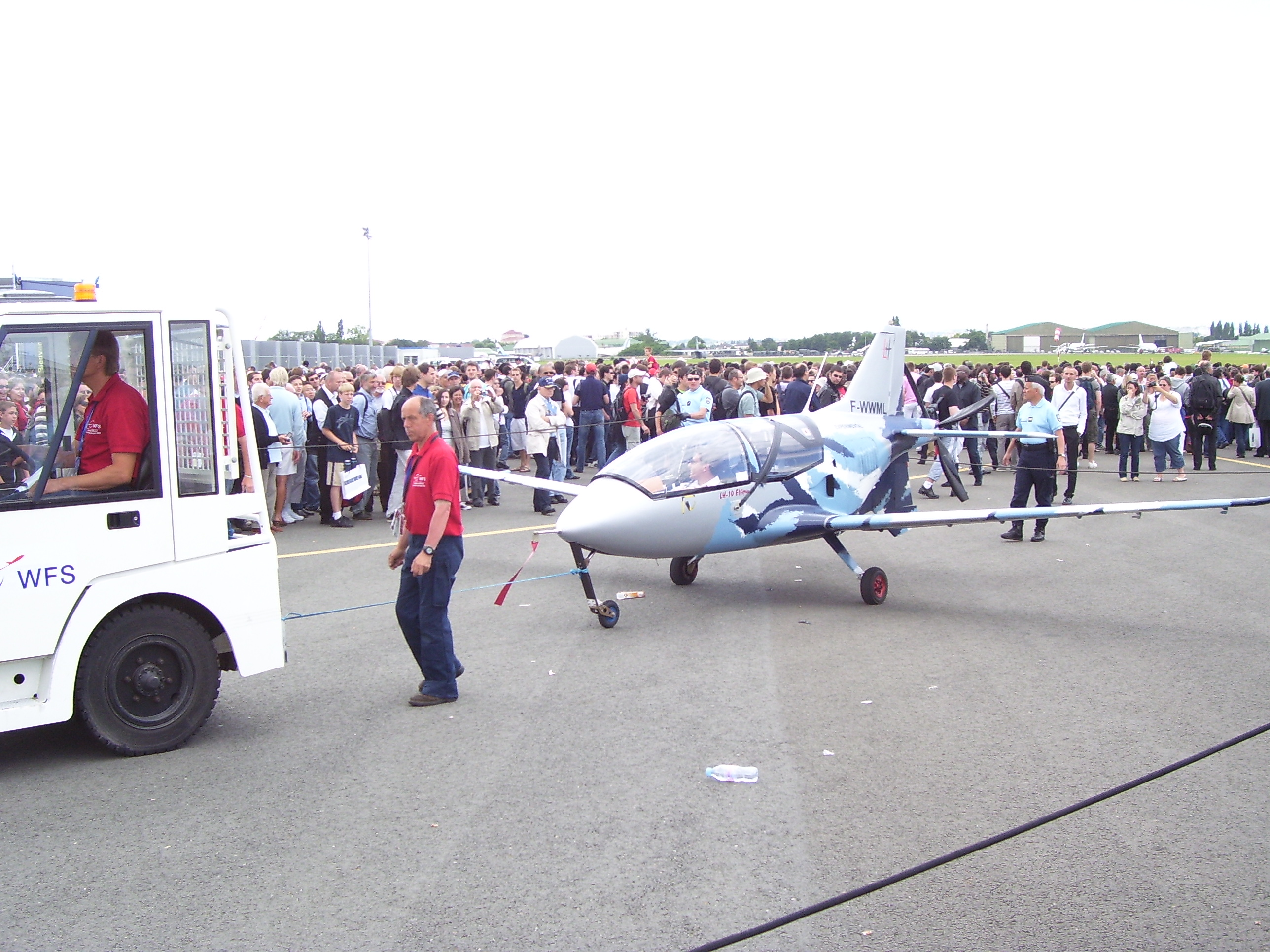 LH-10 Ellipse, this aircraft come back after his presentation.